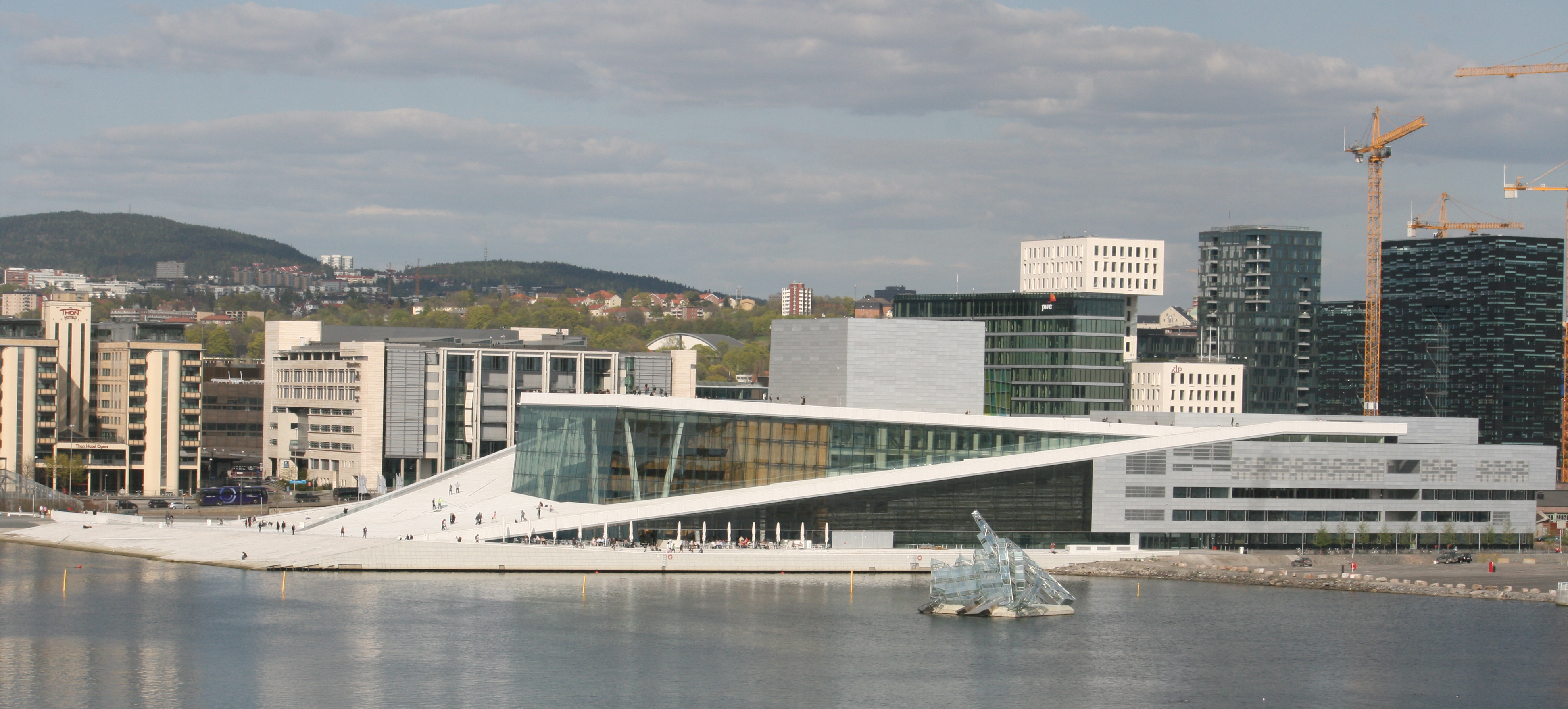 Oslo Opera House (architects Snøhetta) seen from the seaside with the sculpture «She Lies» by Monica Bonvicini floating in the water in front.